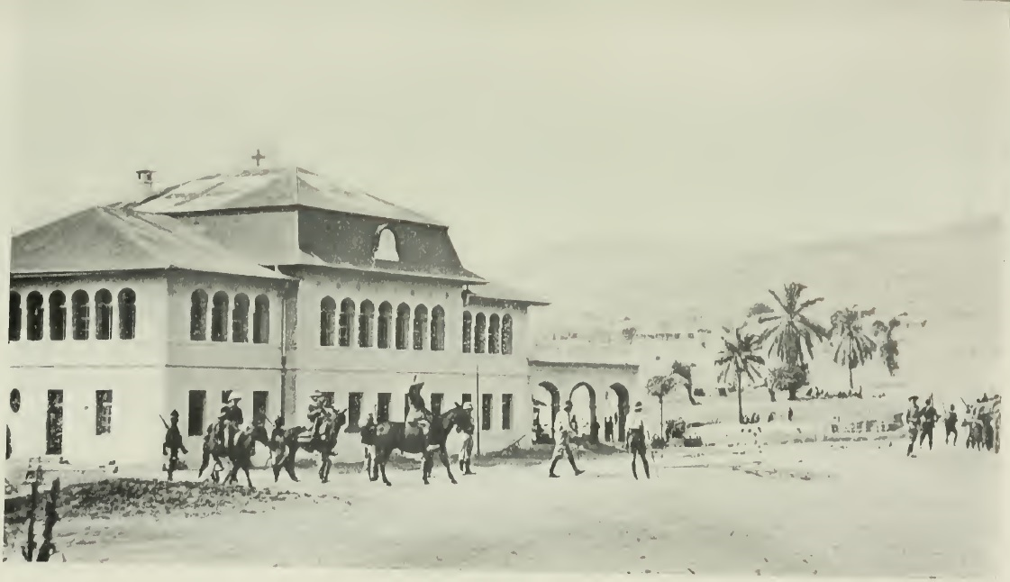 Kigoma brigade sud lt col Thomas 2e regiment august1916, Force Publique, East African Campaign, WWI, German East Africa, Tanzania